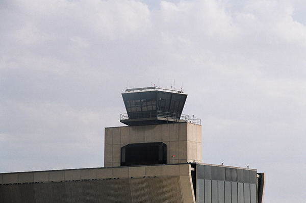 A photo of the Ground Control tower in the Calgary International Airport